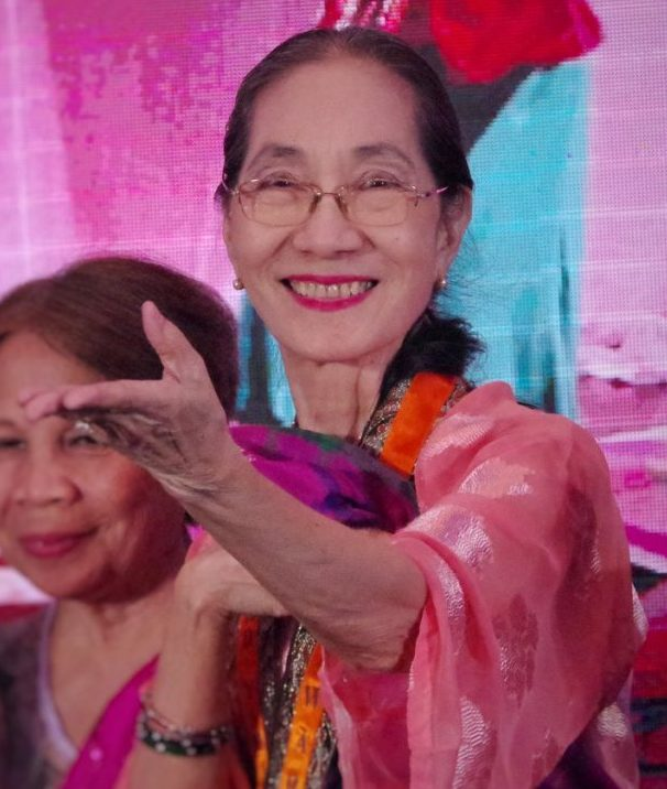 Receiving the Gawad Yamang Isip for Arts and Literature (Sining at Panitikan) is Ramon Magsaysay Awardee, Ligaya Fernando-Amilbangsa. Her promotion of the pangalay dance of the Sulu archipelago, as well as her studies on Muslim culture, keeps alive the indigenous arts of Southern Philippines.